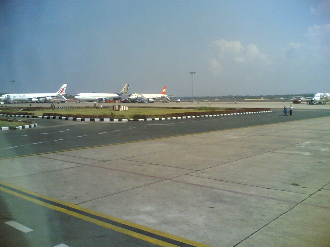 View of Trivandrum International Airport